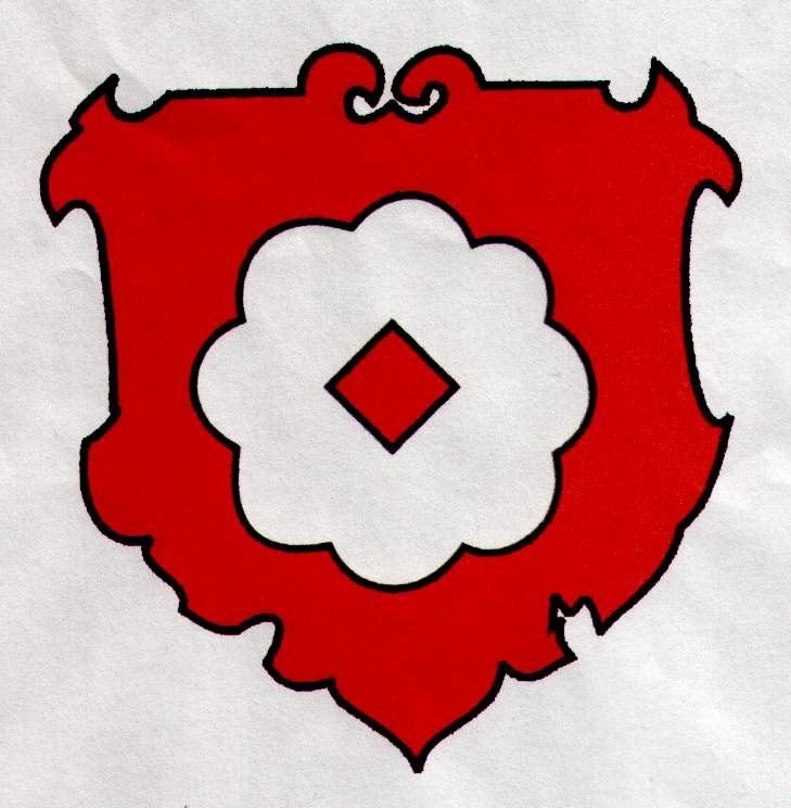 Coat of arms of Nauendorf in Thüringen, Germany